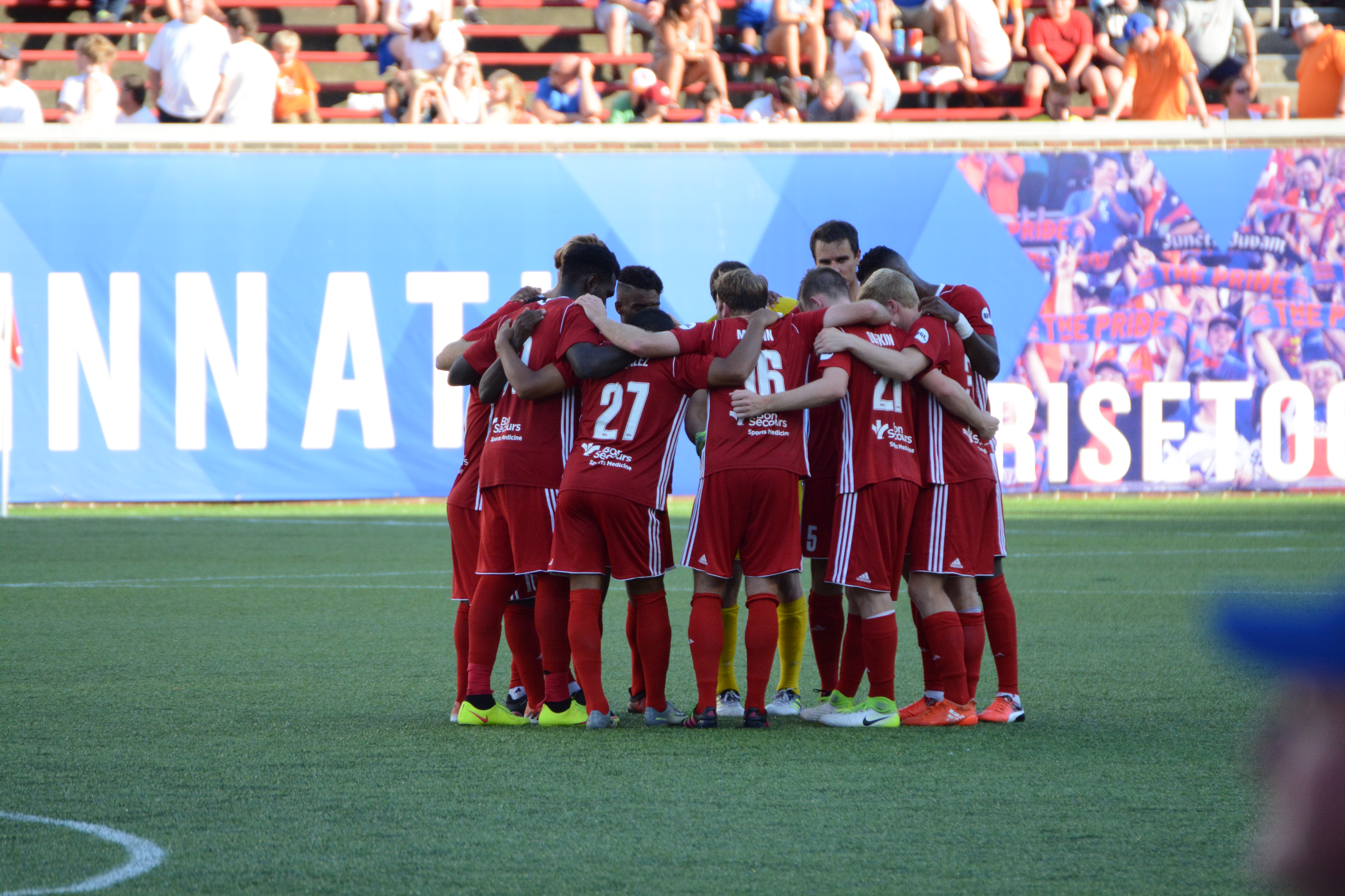 Taken during a USL regular season match between FC Cincinnati and Richmond Kickers at Nippert Stadium in Cincinnati, USA on July 9, 2017.